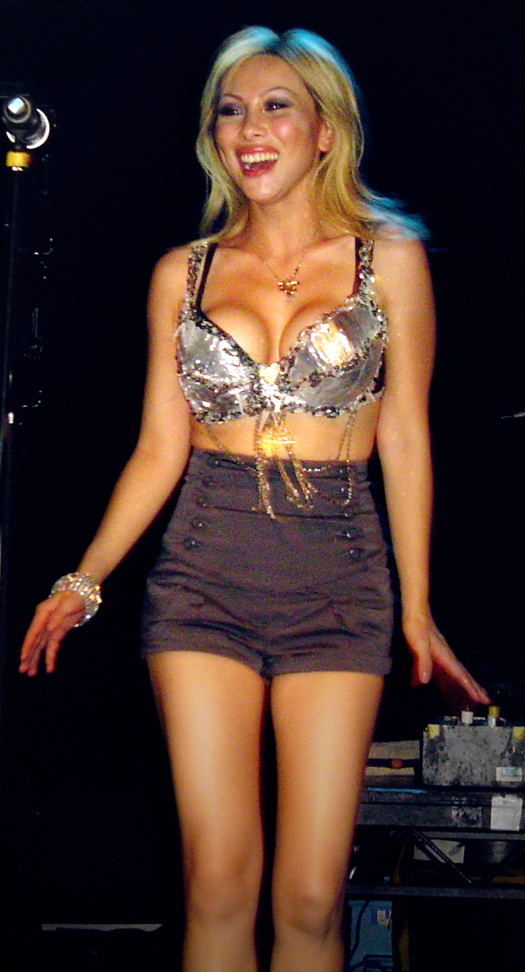 Etty Lau Farrell performing in London